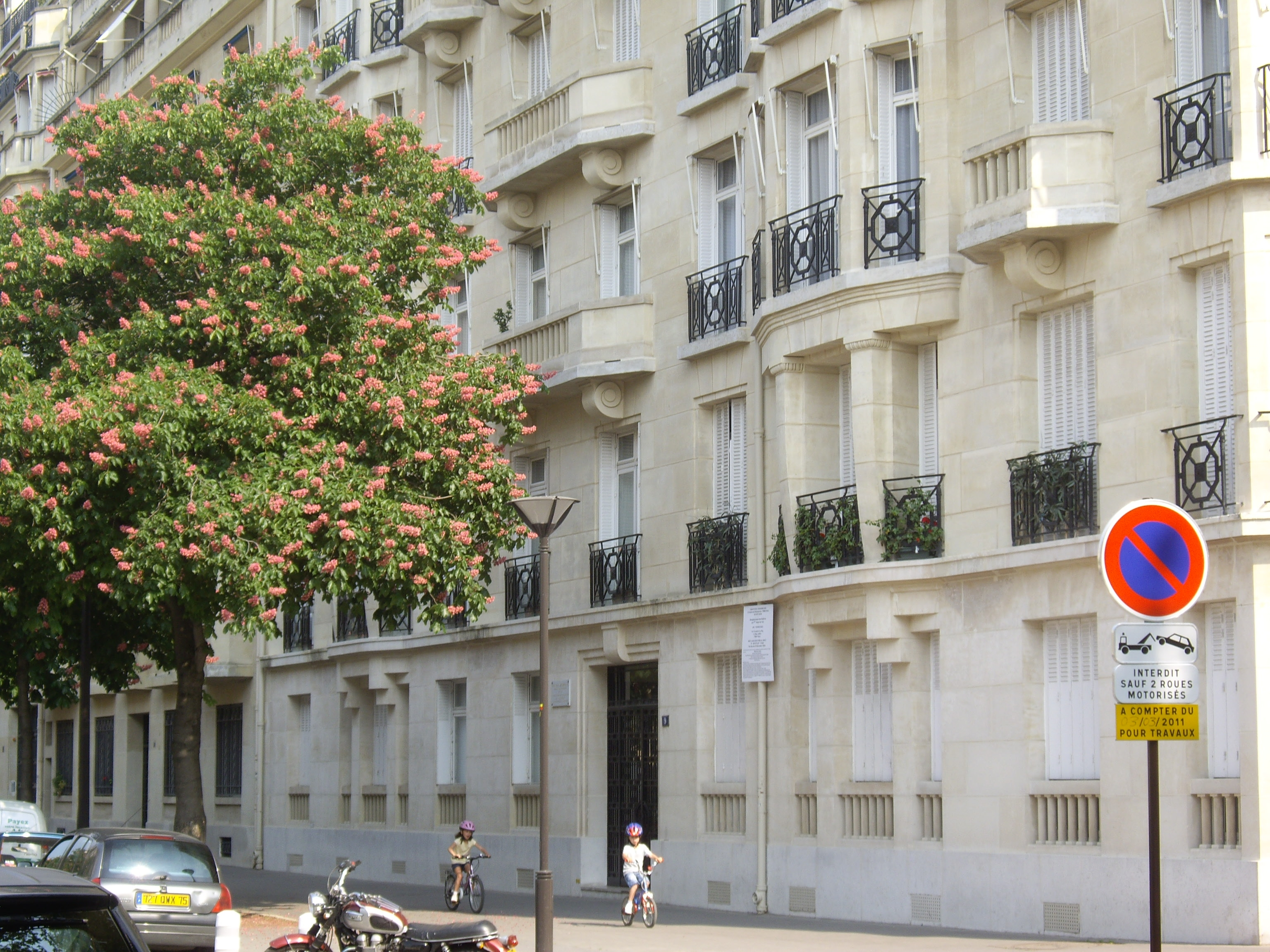 Building at 9 Avenue Frédéric-Le-Play, Paris 7th, where French President François Mitterrand spent the last months of his life and where he died on 8 January 1996.